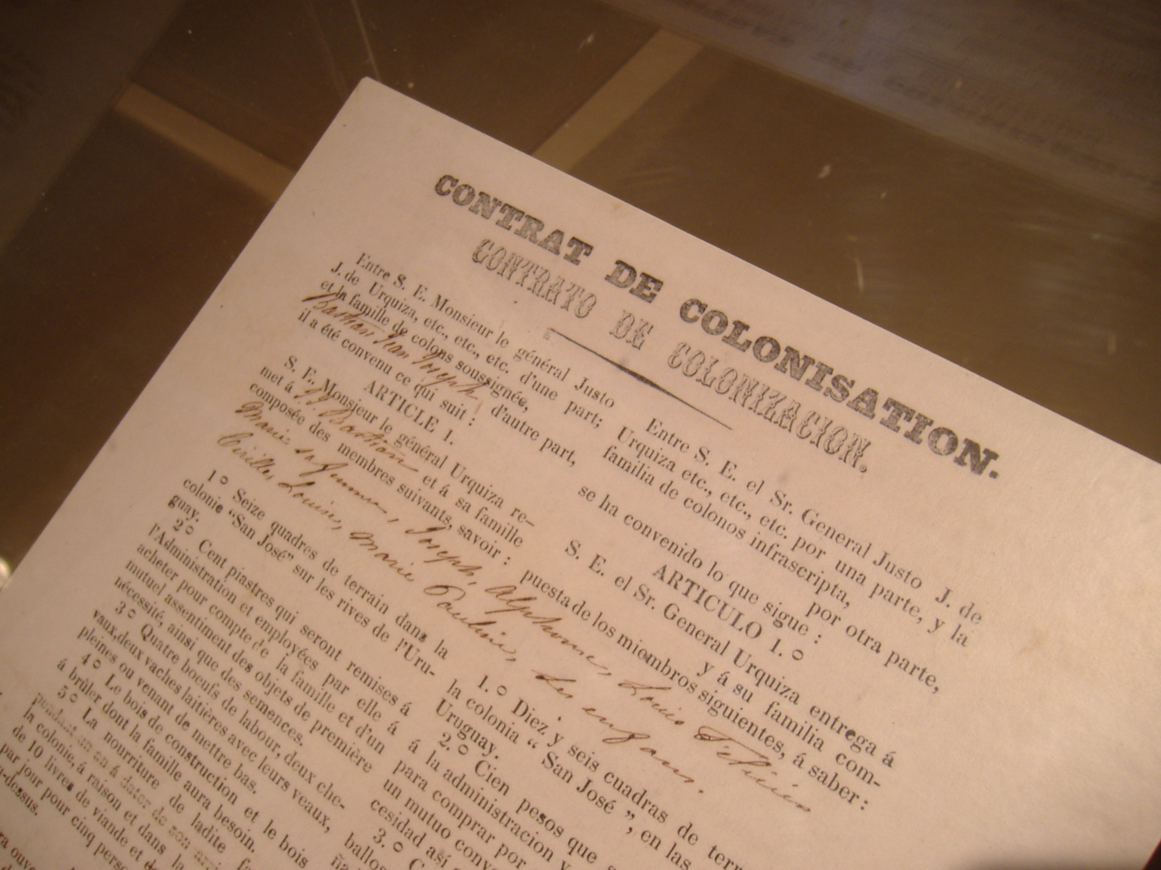 Copy of a colonization contract in a history museum of San José, Entre Ríos, Argentina, between a European family (Swiss?) and General Justo José de Urquiza.